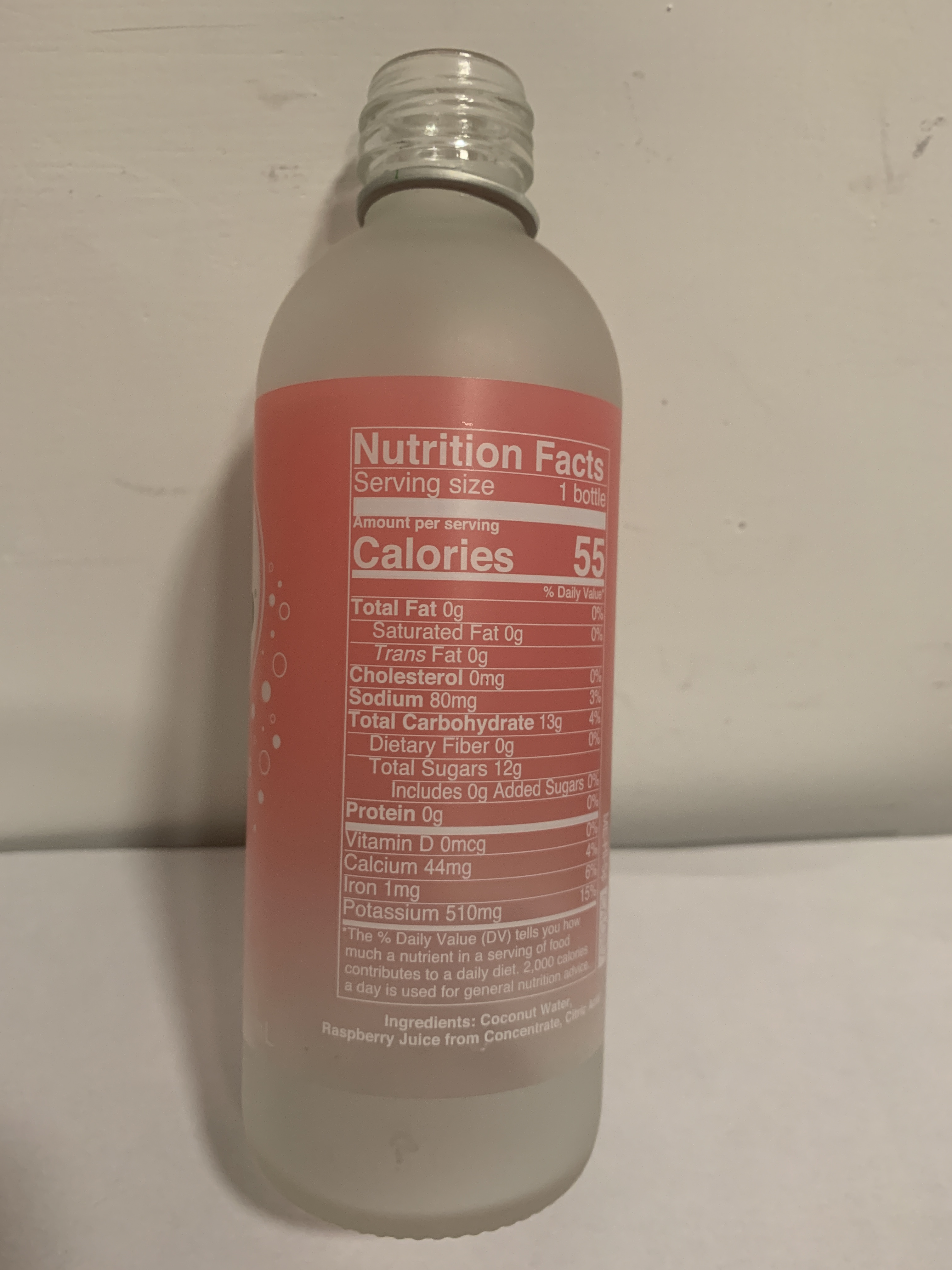 Jax Coco bottle nutrition